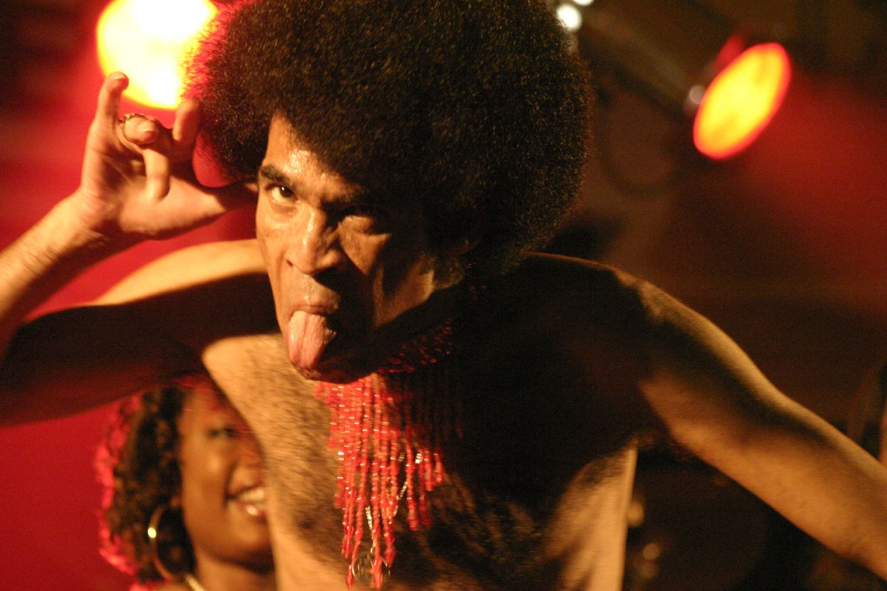 Bobby Farrell, Boney M.139_3934